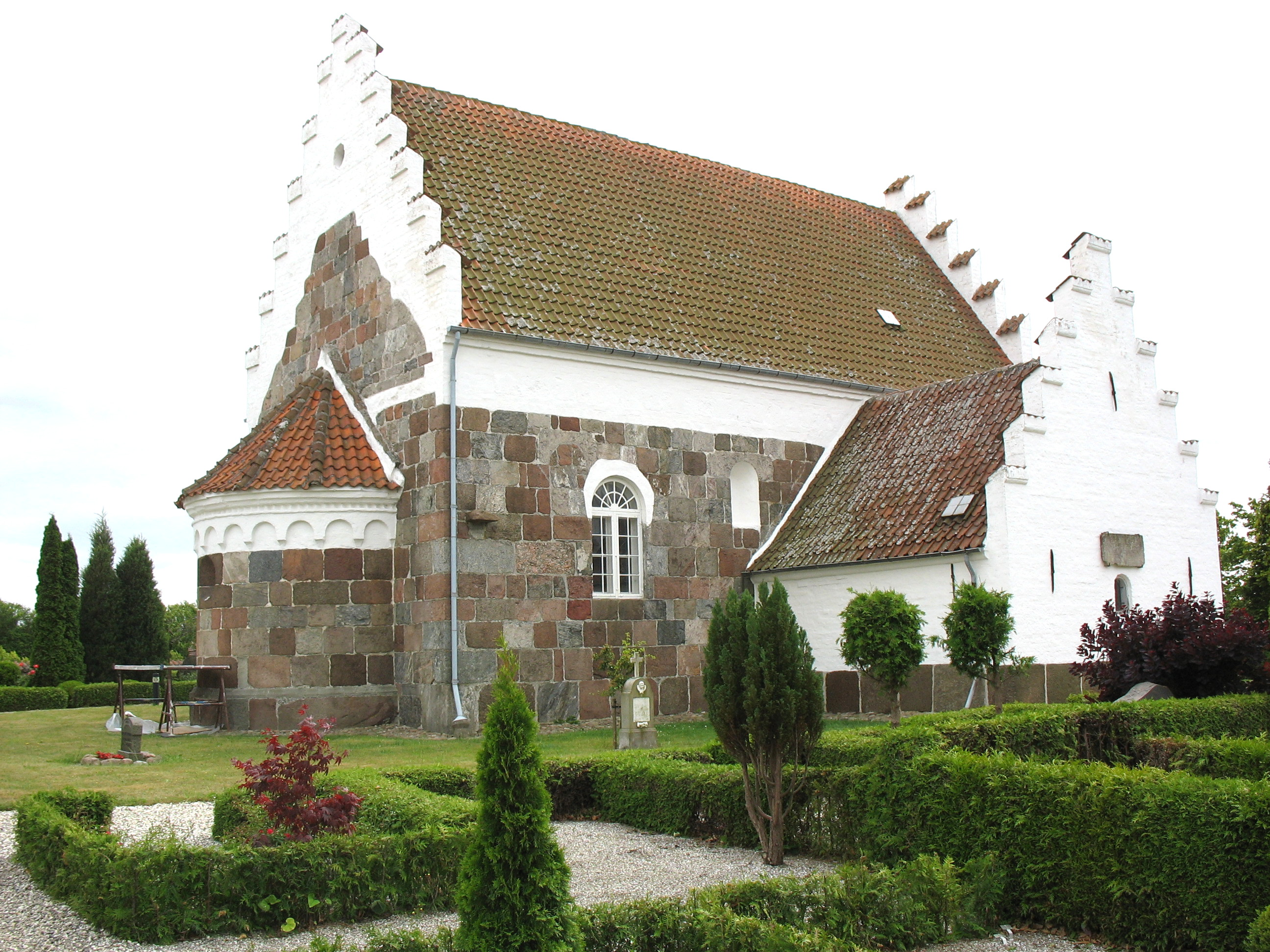 The church "Søllested Kirke" in the small town "Søllested". The town is located on the island Lolland in east Denmark.